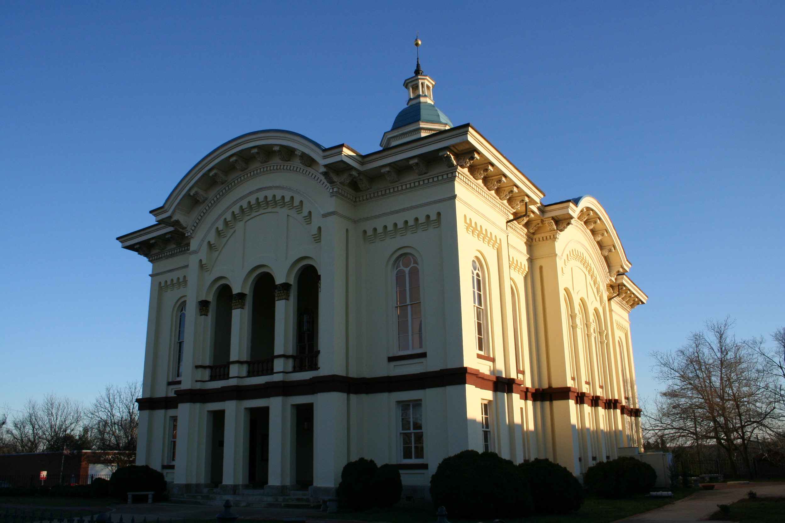 Caswell County Courthouse Feb 2007, North Carolina